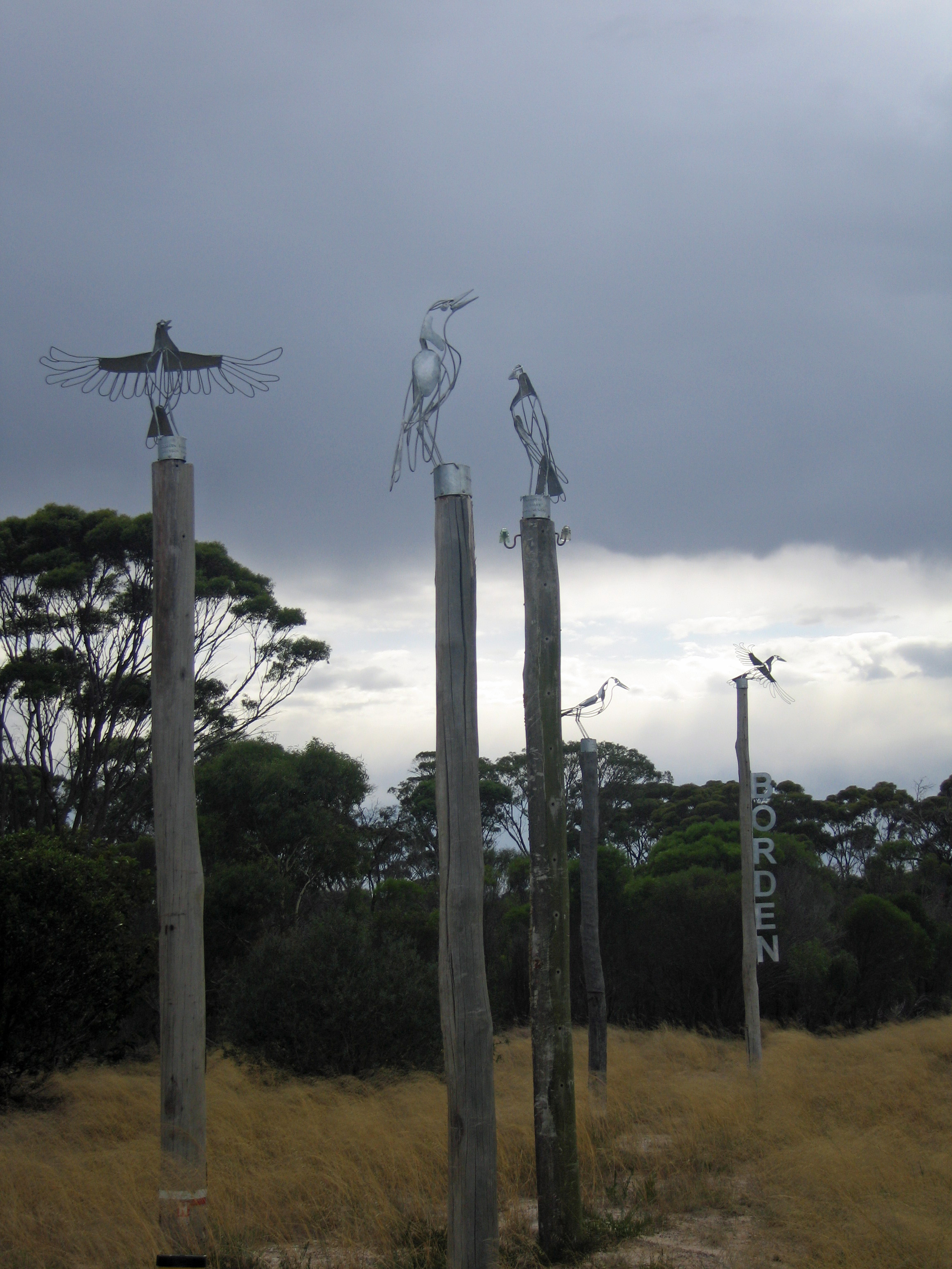 Welcome sign, Borden, Western Australia